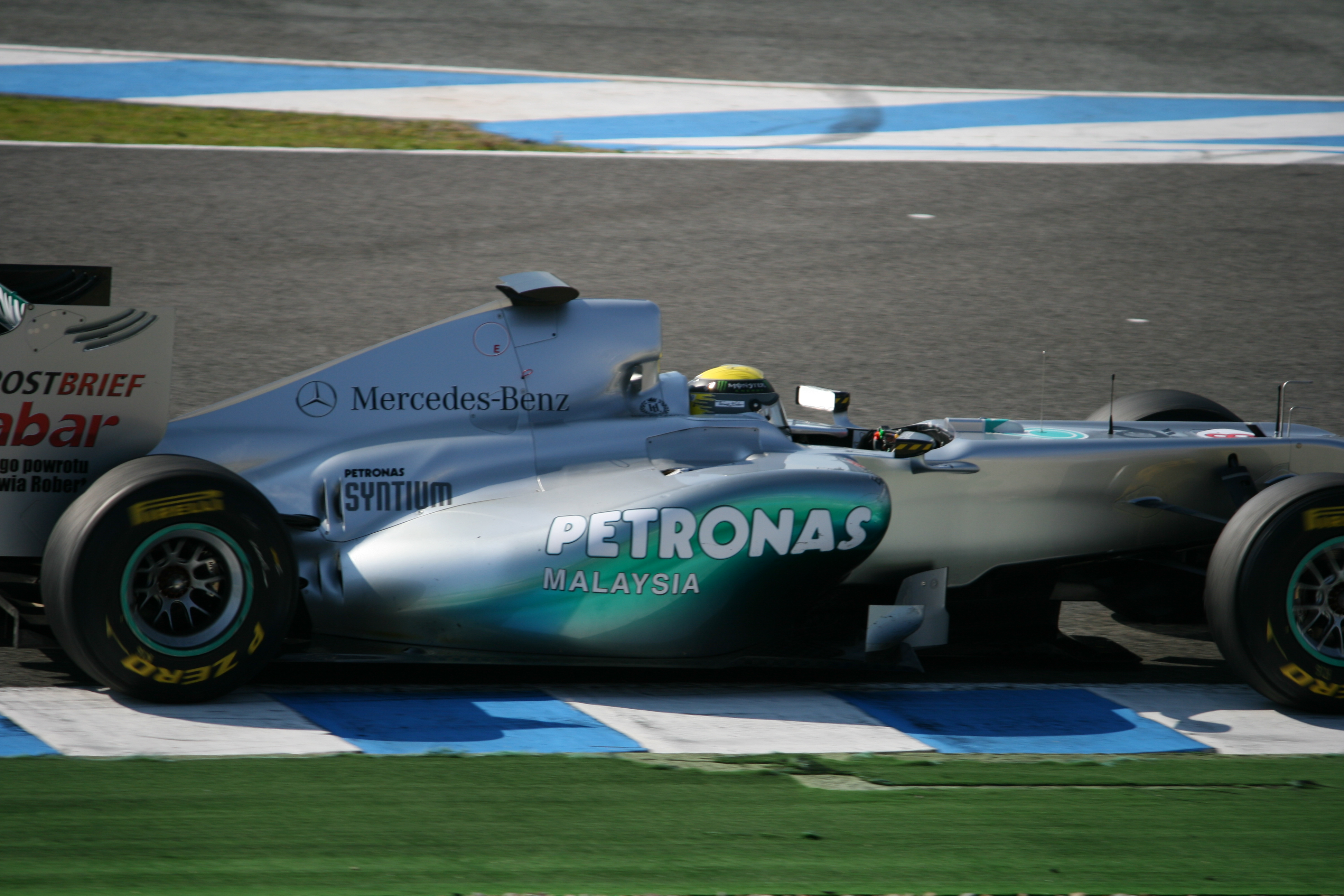 Nico Rosberg testing for Mercedes GP at Jerez.